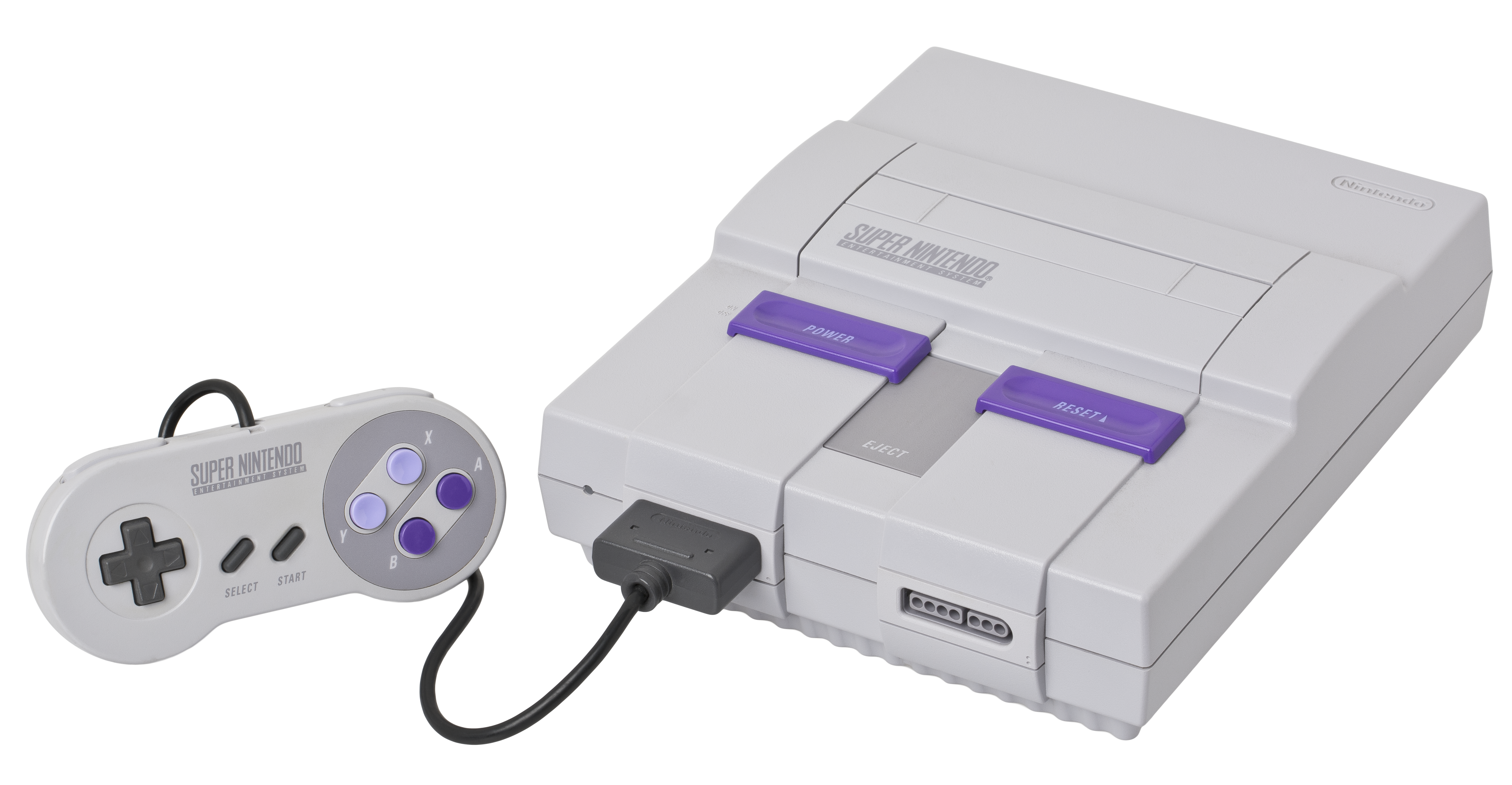 A Super Nintendo Entertainment System (SNES or Super NES) video game console, shown with standard controller.